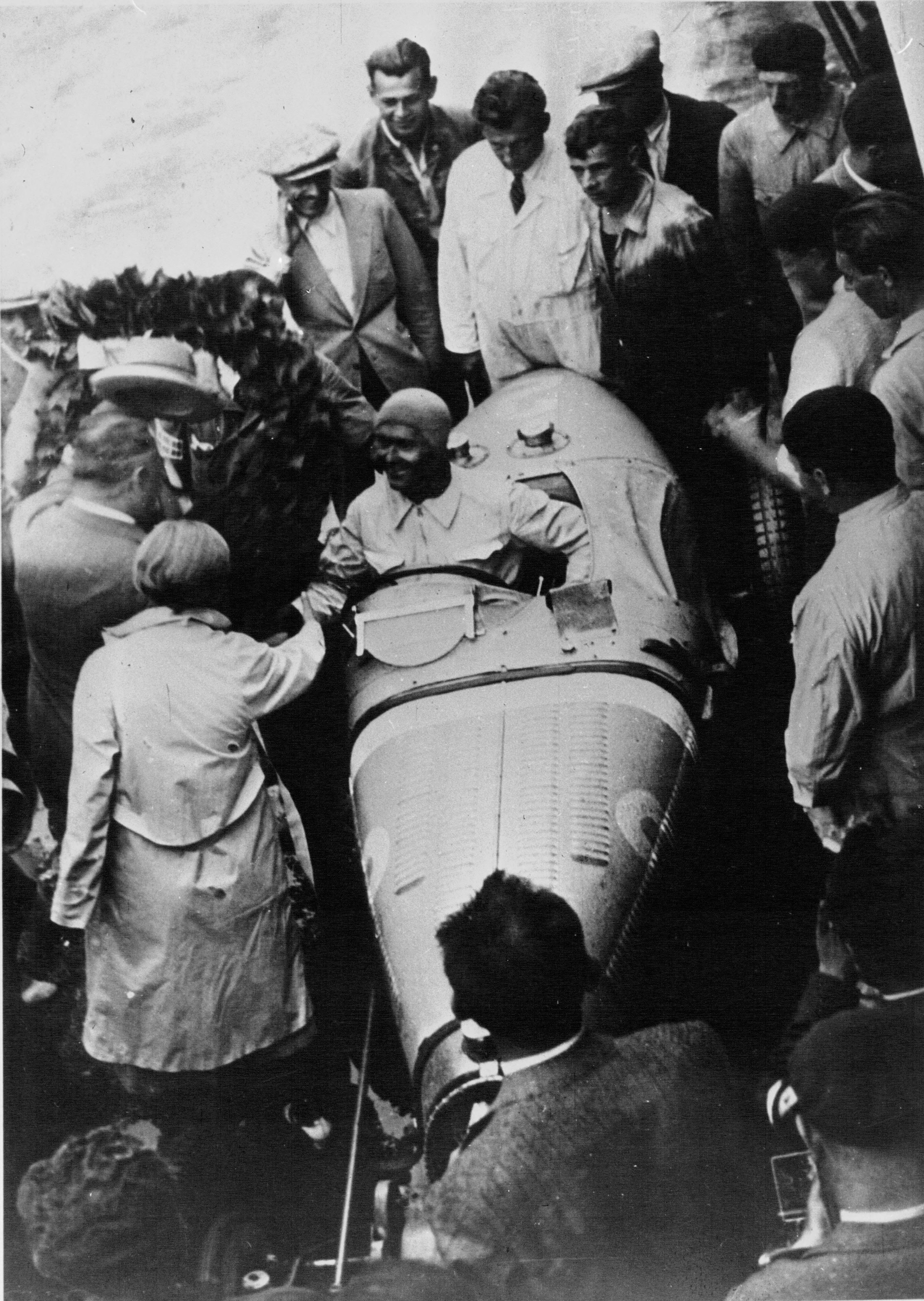 Louis Chiron at the 1932 Masaryk Grand Prix